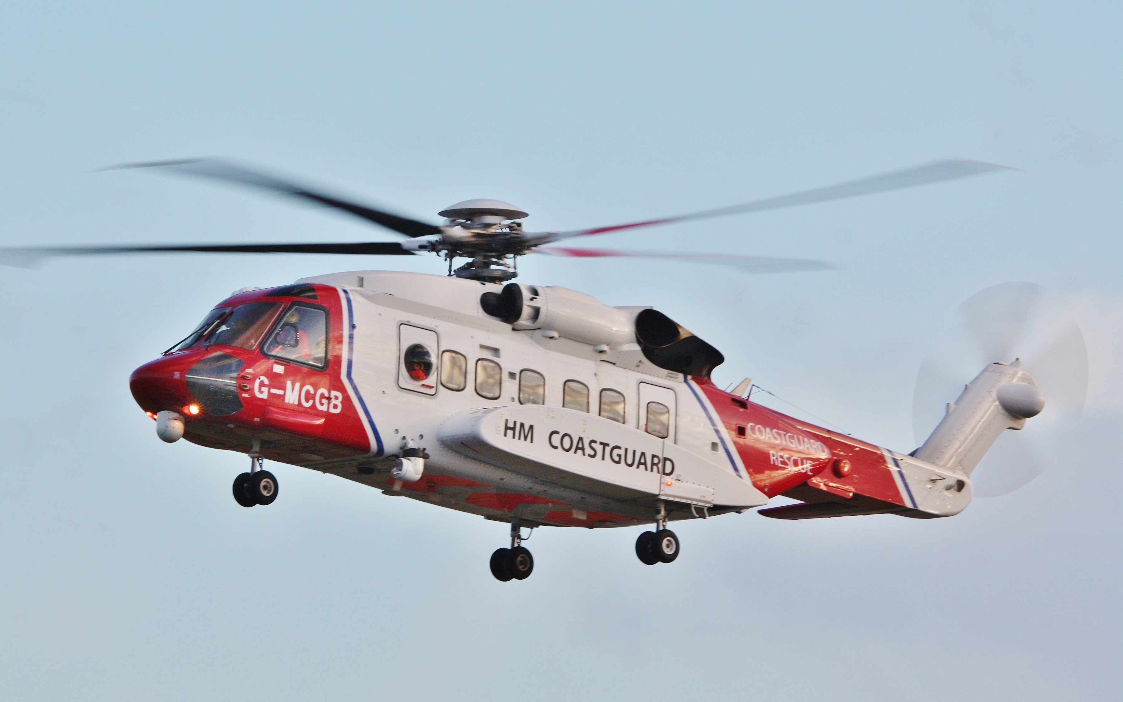 Landing approach to home base at Sumburgh.